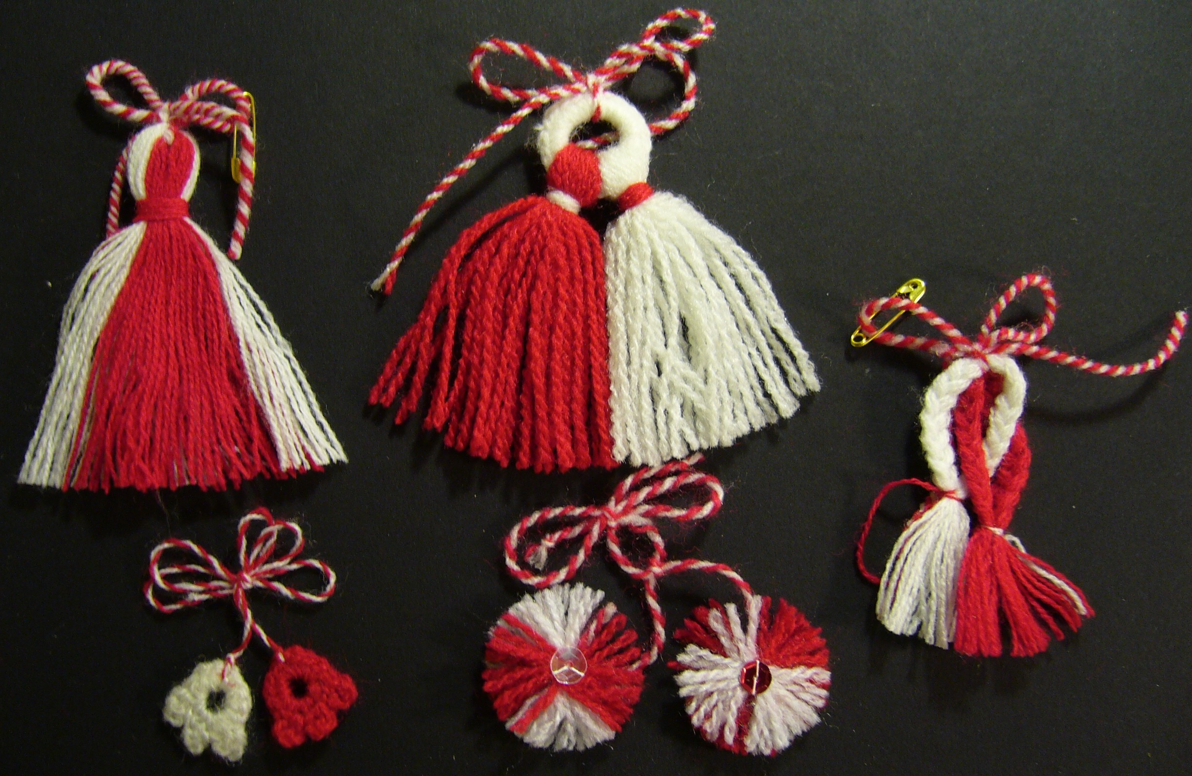 Martenitsa, or Pijo and Penda, a Bulgarian tradition, celebrating the spring arrival. See also: Martenitsa. Alt. spellings: Martenitza, Pizho and Pendo, Martenitsi, Martenichki, Martenichka, Martenica.